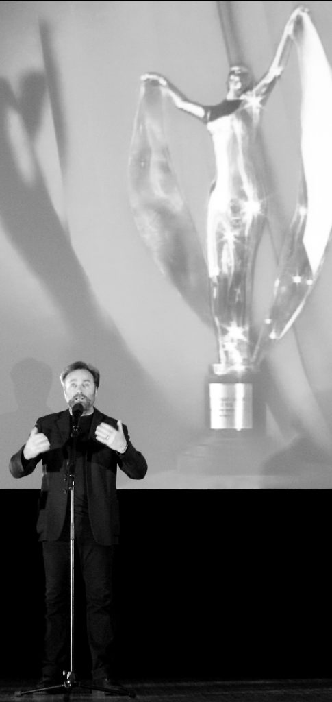 Franco-Nero-Hercova-misia-1995